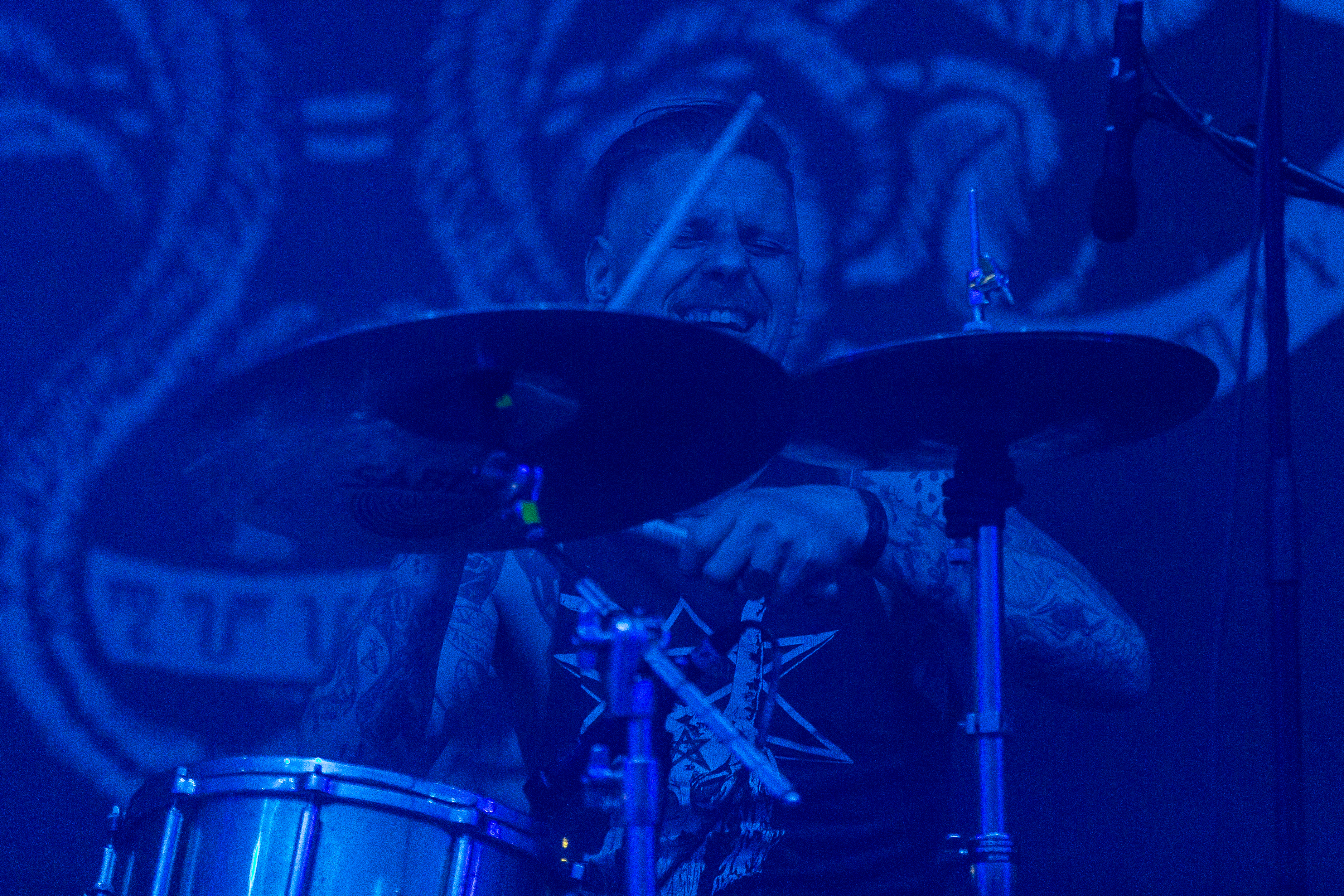 The Dutch atmospheric black metal band Urfaust at the Party.San Metal Open Air 2016 in Obermehler-Schlotheim/Germany.